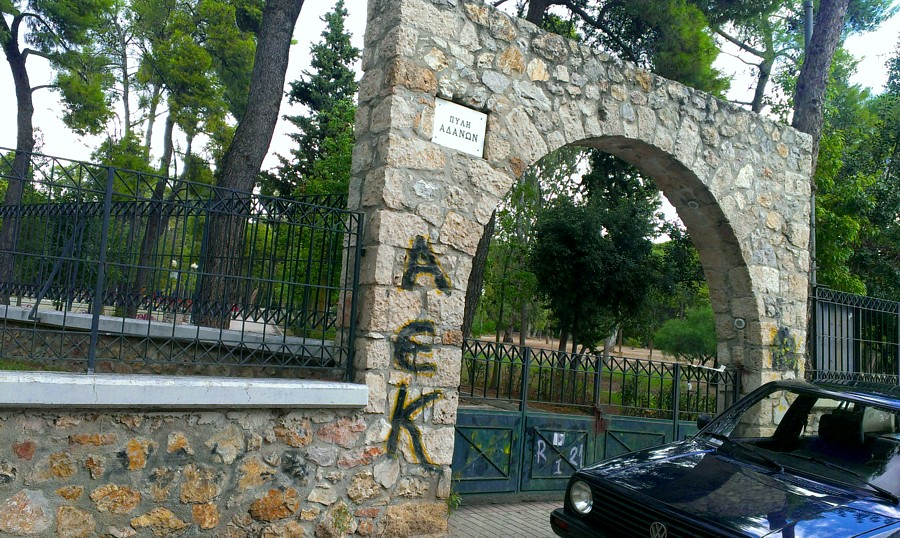 filadelfeia